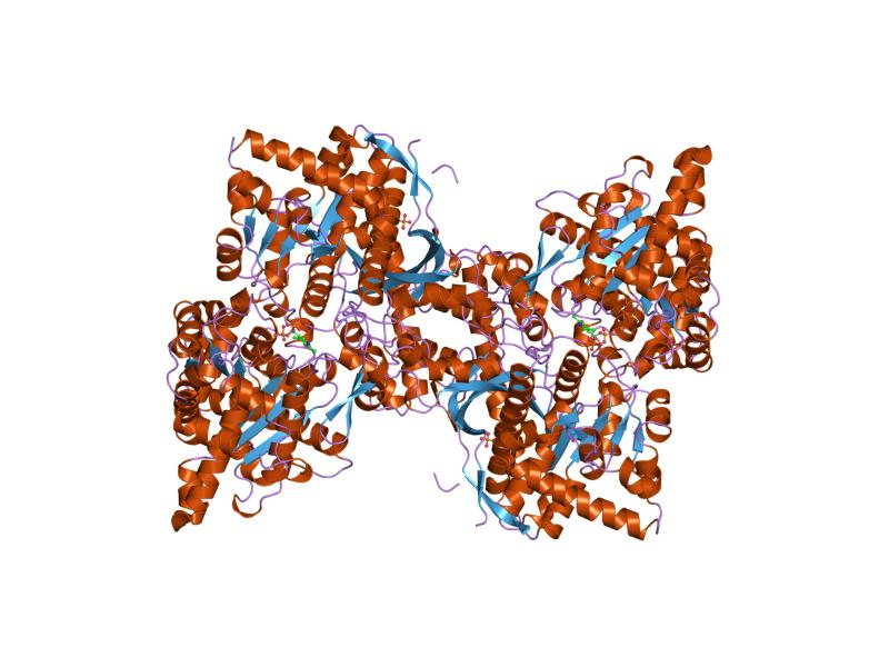 Cartoon representation of the molecular structure of protein registered with 1ygp code.